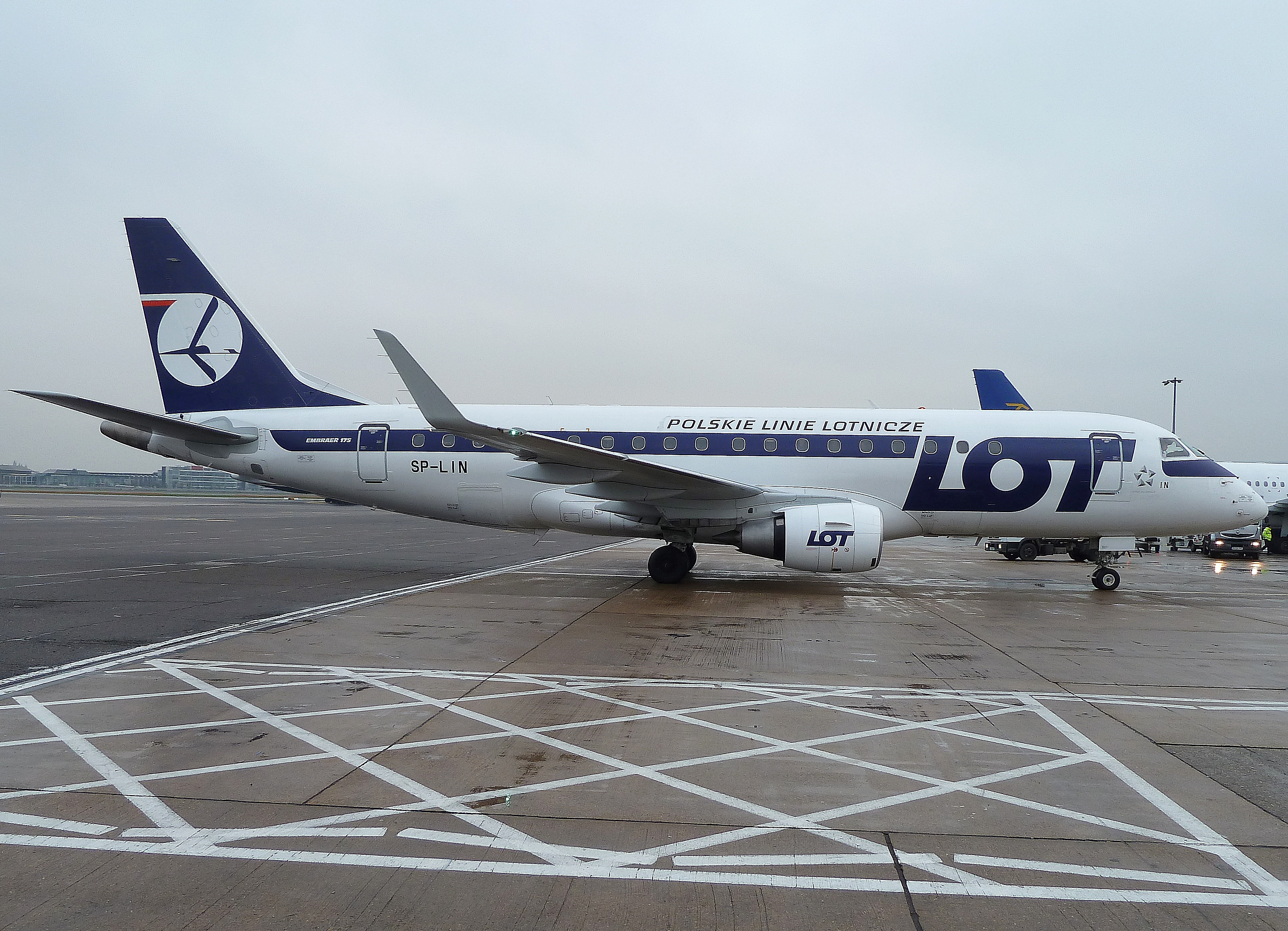 SP-LIN EMB170 LOT pulling on std 119.